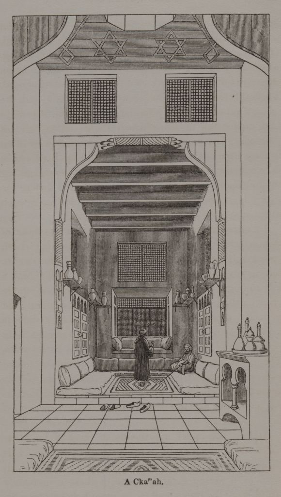 A room in the house lined with cushions. Engraving (prints).